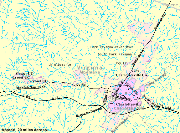 Census Bureau map of Charlottesville